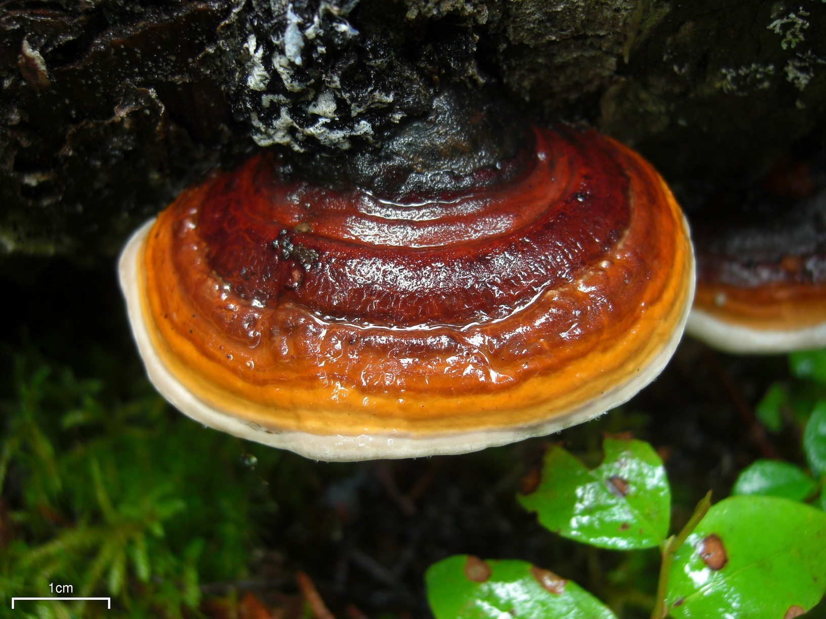 Fomitopsis pinicola (Sw.) P. Karst. Location: Glacier Peak Wilderness, Washington, USA Observation Notes: in rainforest along Vista Creek ~3500’ For more information about this, see the observation page at Mushroom Observer.